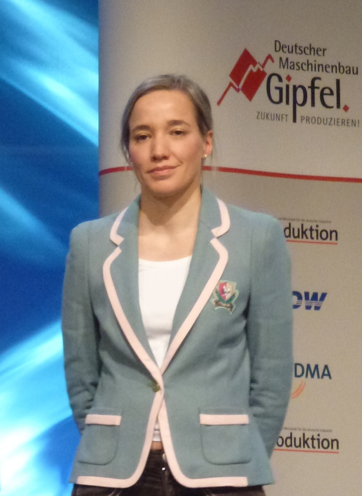 CDU Politician Kristina Schröder at a conference 2012